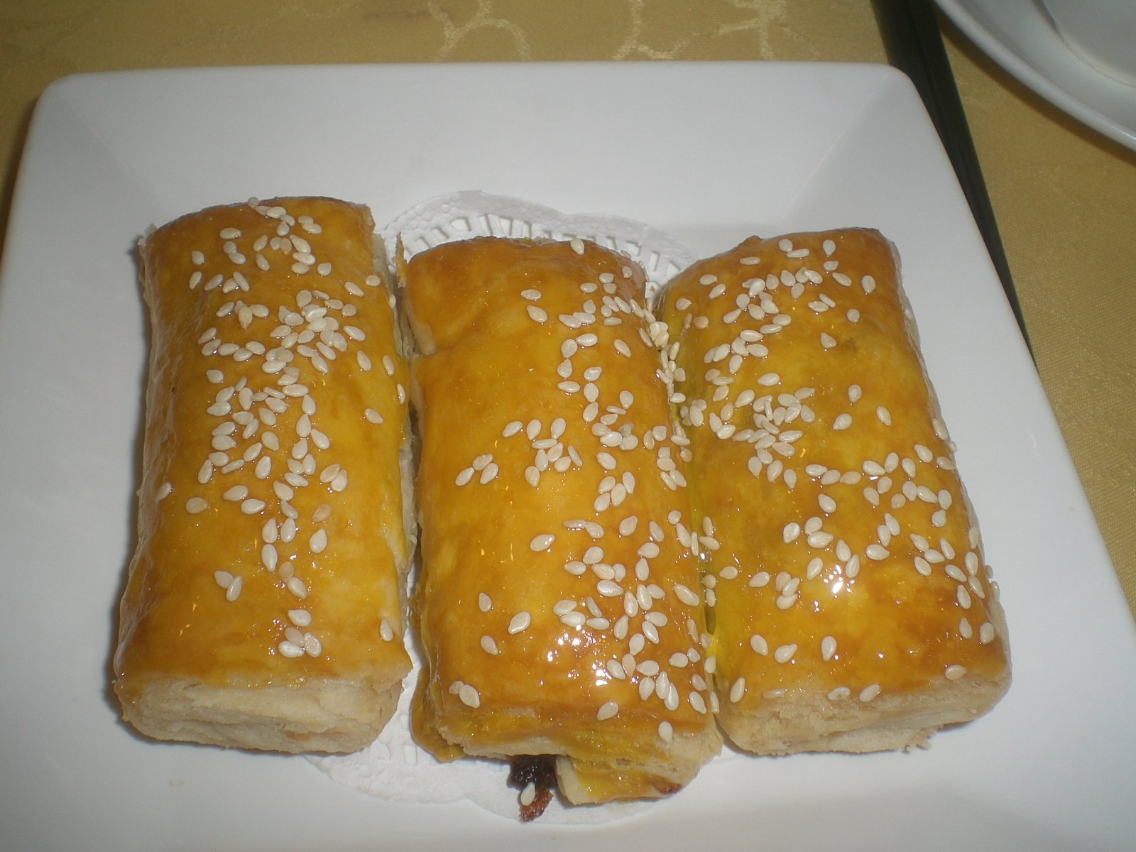 廣東zh:點心叉燒酥